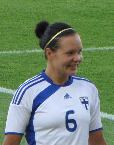 Tiina Salmén during Finland - Northern Ireland friendly match.